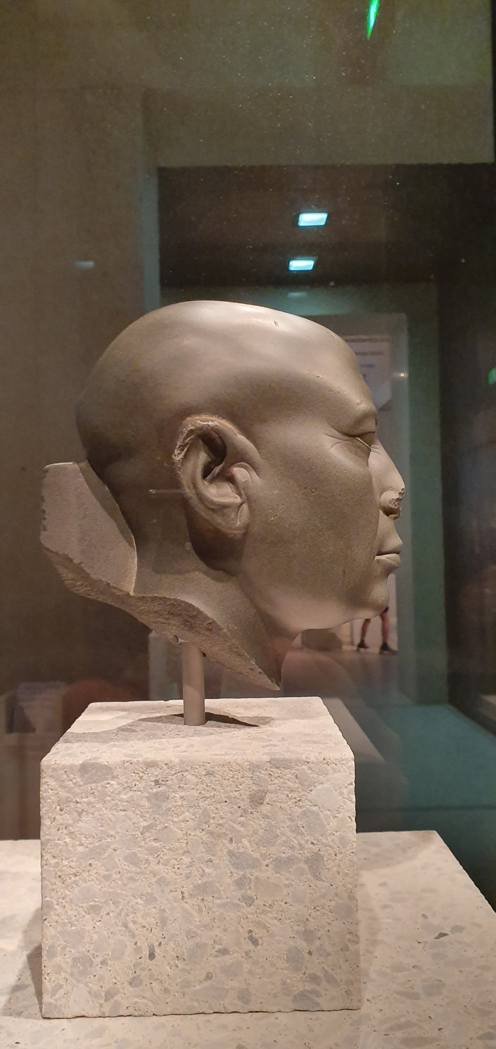 Berlin Green Head